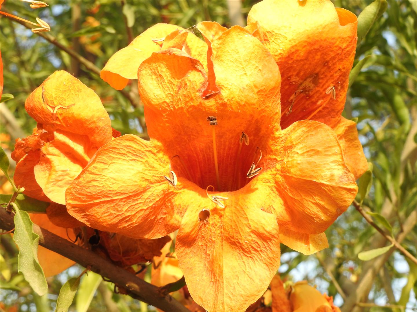 Tecomella undulata in Punjab, India